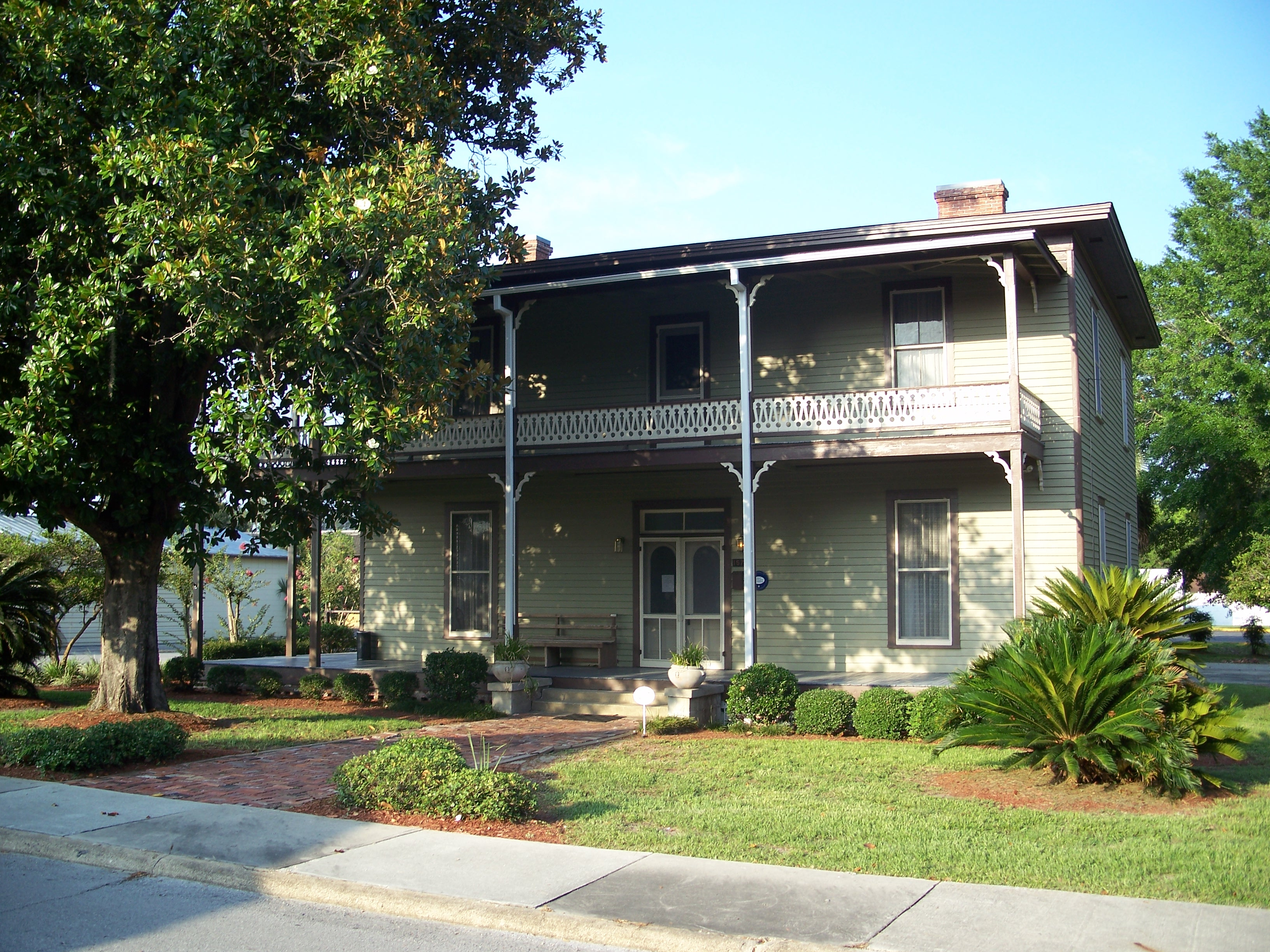 History museum in the residential historic district, in Lake City, Florida